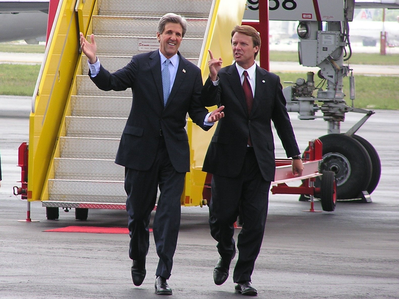 July 8, 2004 Fort Lauderdale - Hollywood International Airport. Kerry for President Campaign Rally